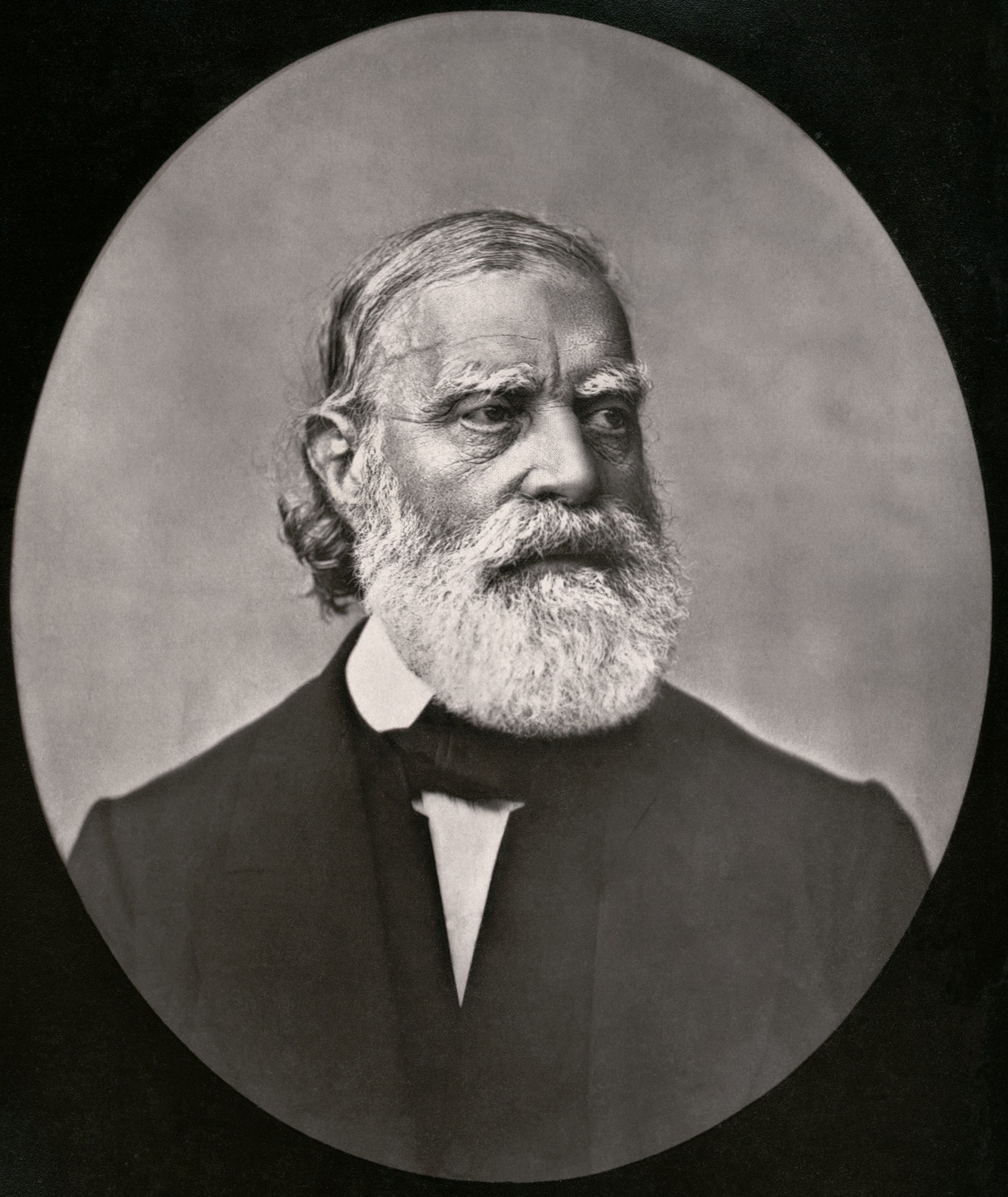 François-Vincent Raspail (1794-1878), french chemist, M.D. and politician.